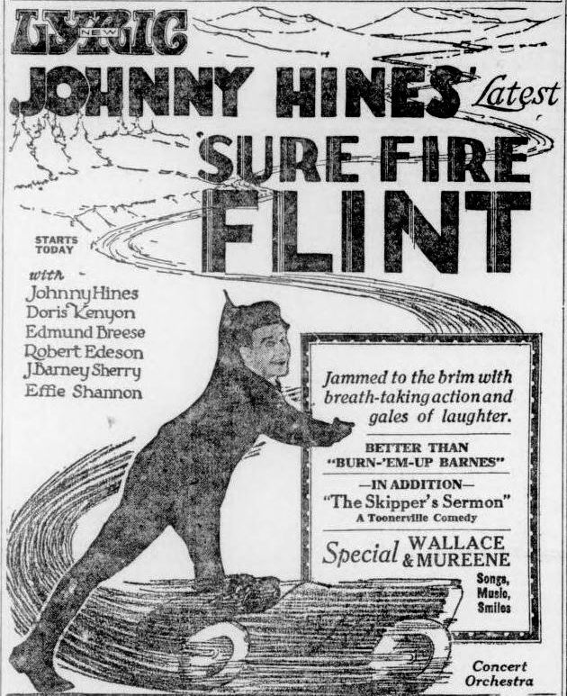 Newspaper advertisement for the American comedy film Sure-Fire Flint (1922) with Johnny Hines, on page 5 of the October 28, 1922 Duluth Herald.